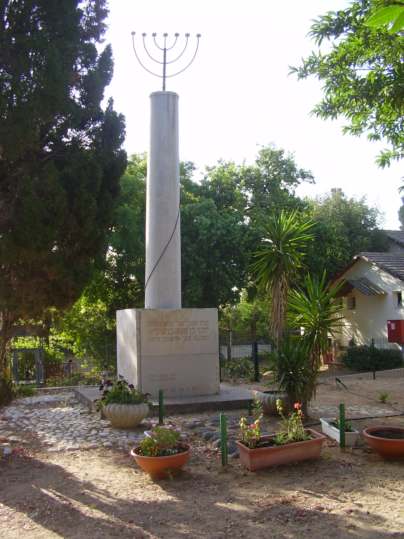 Yosef Binyamini memorial in Netanya